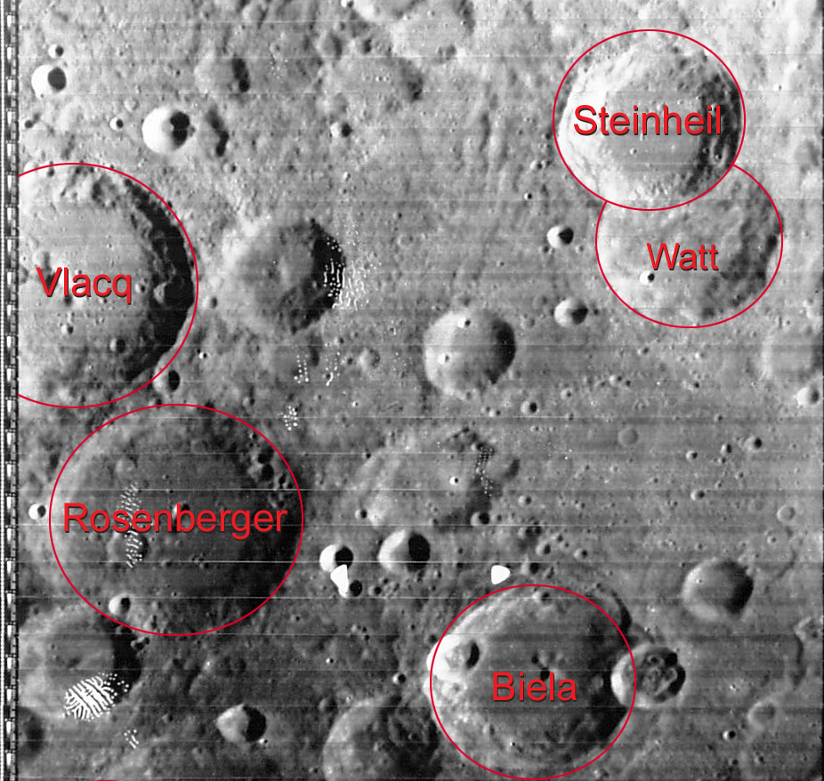 The image displays the lunar impact craters Steinheil, Watt, Biela, Vlacq, and Rosenberger. Steinheil is 67 km in diameter. From NASA's Digital Lunar Orbiter Photographic Atlas of the Moon, this is photo no. IV-076-H1; Sun angle 67.9°, spacecraft altitude 2971.56 km, photo center co-ordinates 42.77°S/37.87°E. Photo Number IV-076-H1.